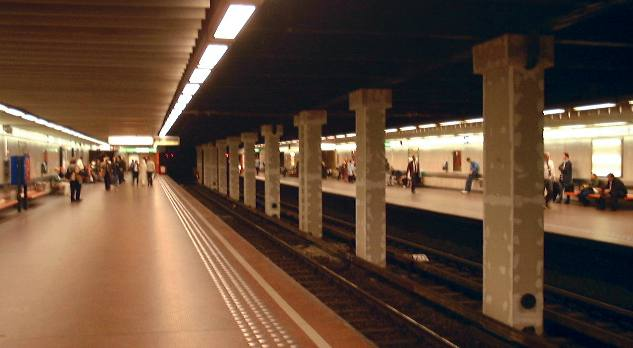 Platforms of Schuman station, Brussels metro